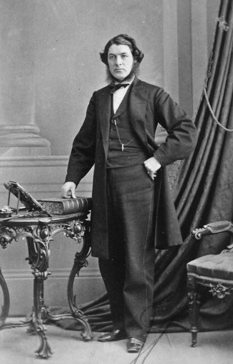 Photograph, Hon. Charles Tupper, Premier of Nova Scotia, photo taken in Montreal, Quebec, Canada, 1864, William Notman (1826-1891), Silver salts on paper mounted on paper - Albumen process - 8 x 5 cm